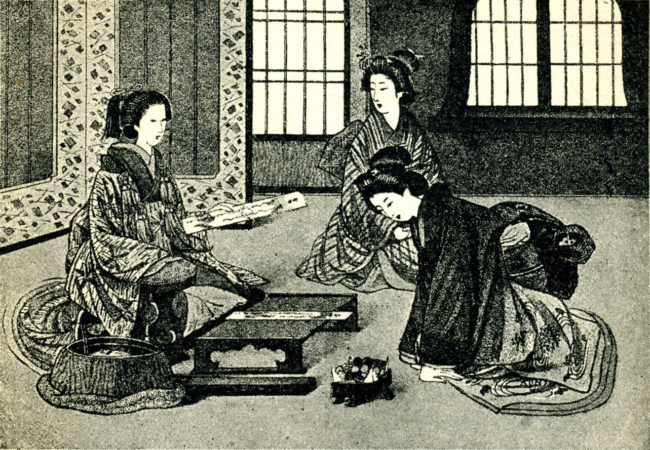 Japanese poetess and her listeners. Image from the book "Japan And Japanese" (1902). Page 123